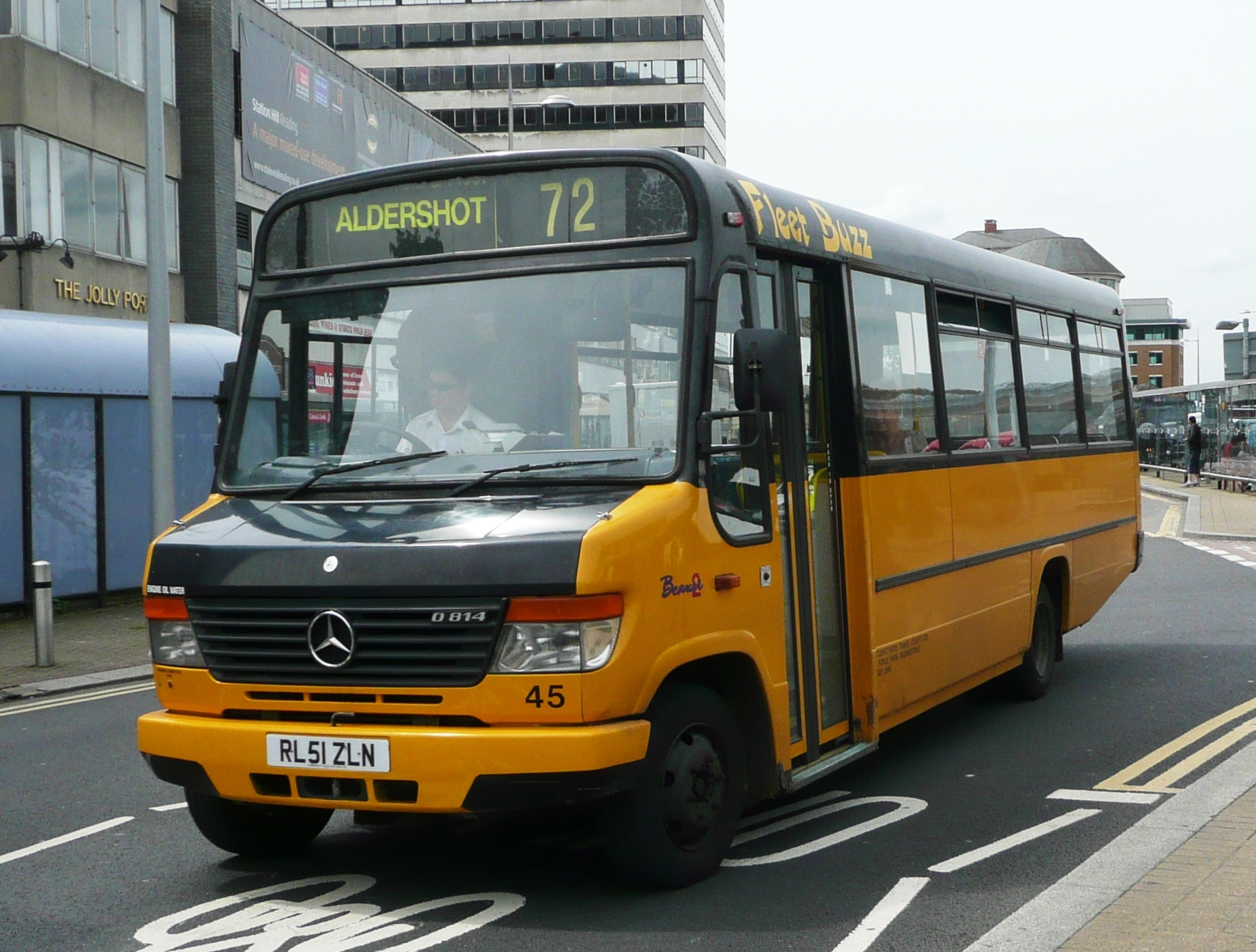 A Fleet Buzz bus on route 72 in Reading, Berkshire, England. The bus is a Mercedes-Benz Vario with Plaxton Beaver 2 body, fleet number 45, registration mark RL51 ZLN.